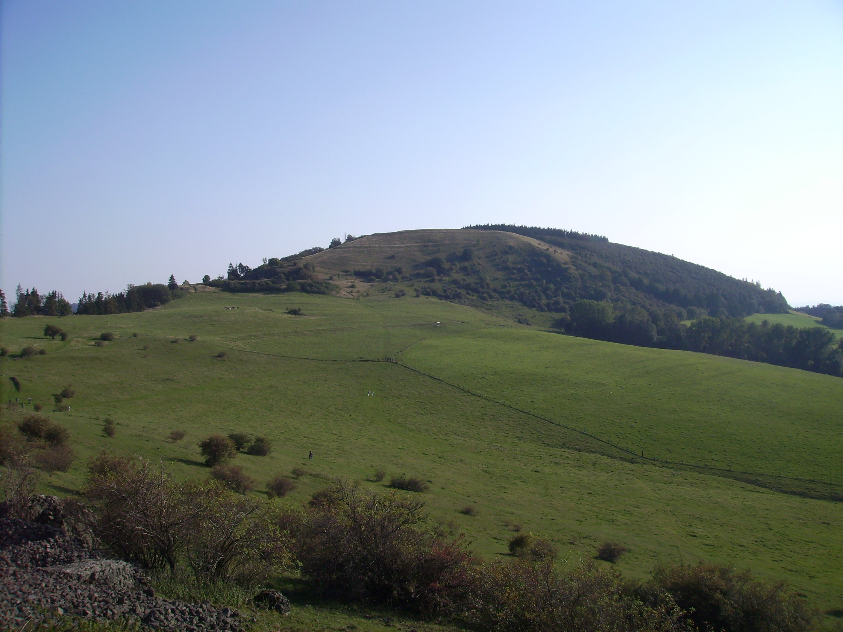 Dörnberg seen from the Helfensteine - Sep. 2011